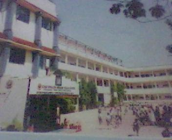 The School Building in 2011